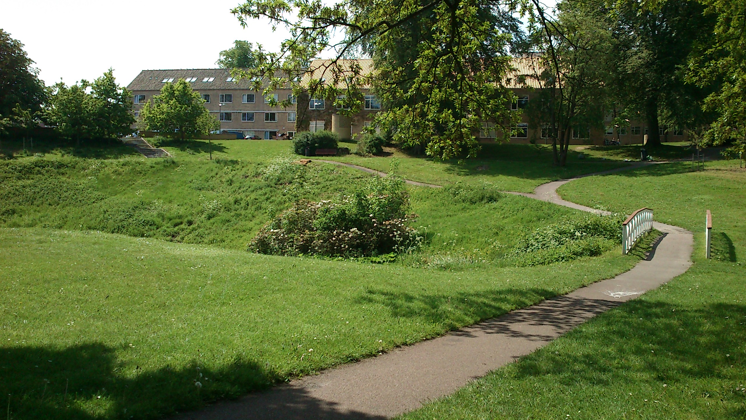 Vennelystparken